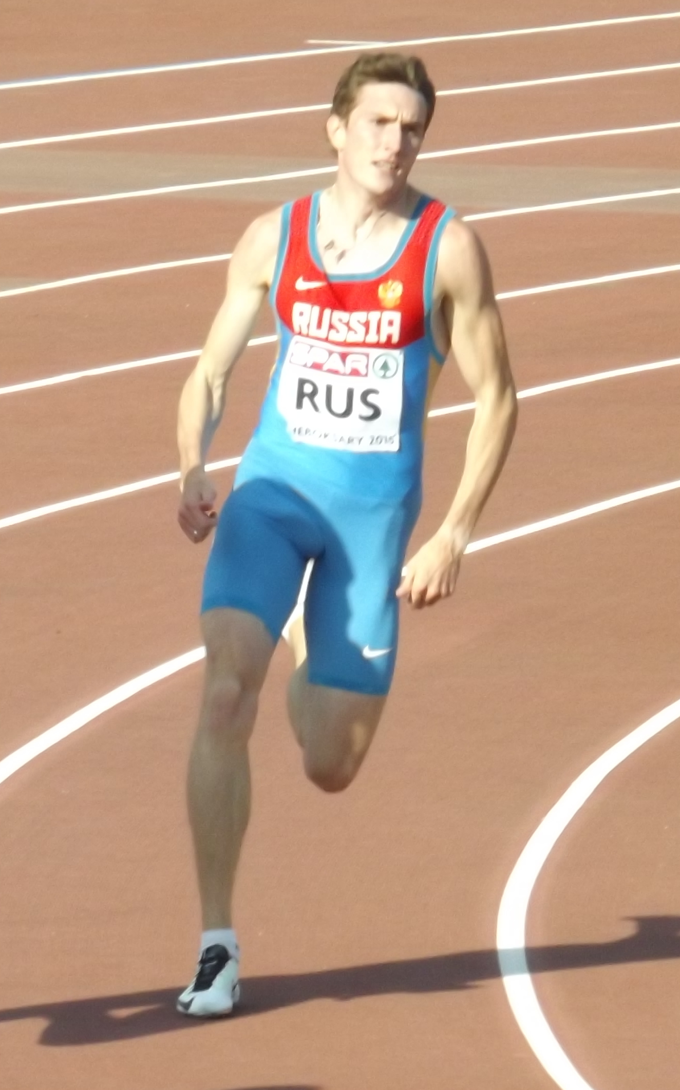 Pavel Ivashko competing at the 2015 European Team Championships